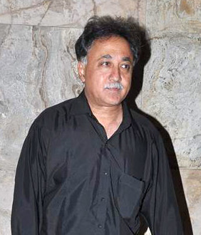 Director Mansoor Khan at 25th anniversary of 'Qayamat Se Qayamat Tak'